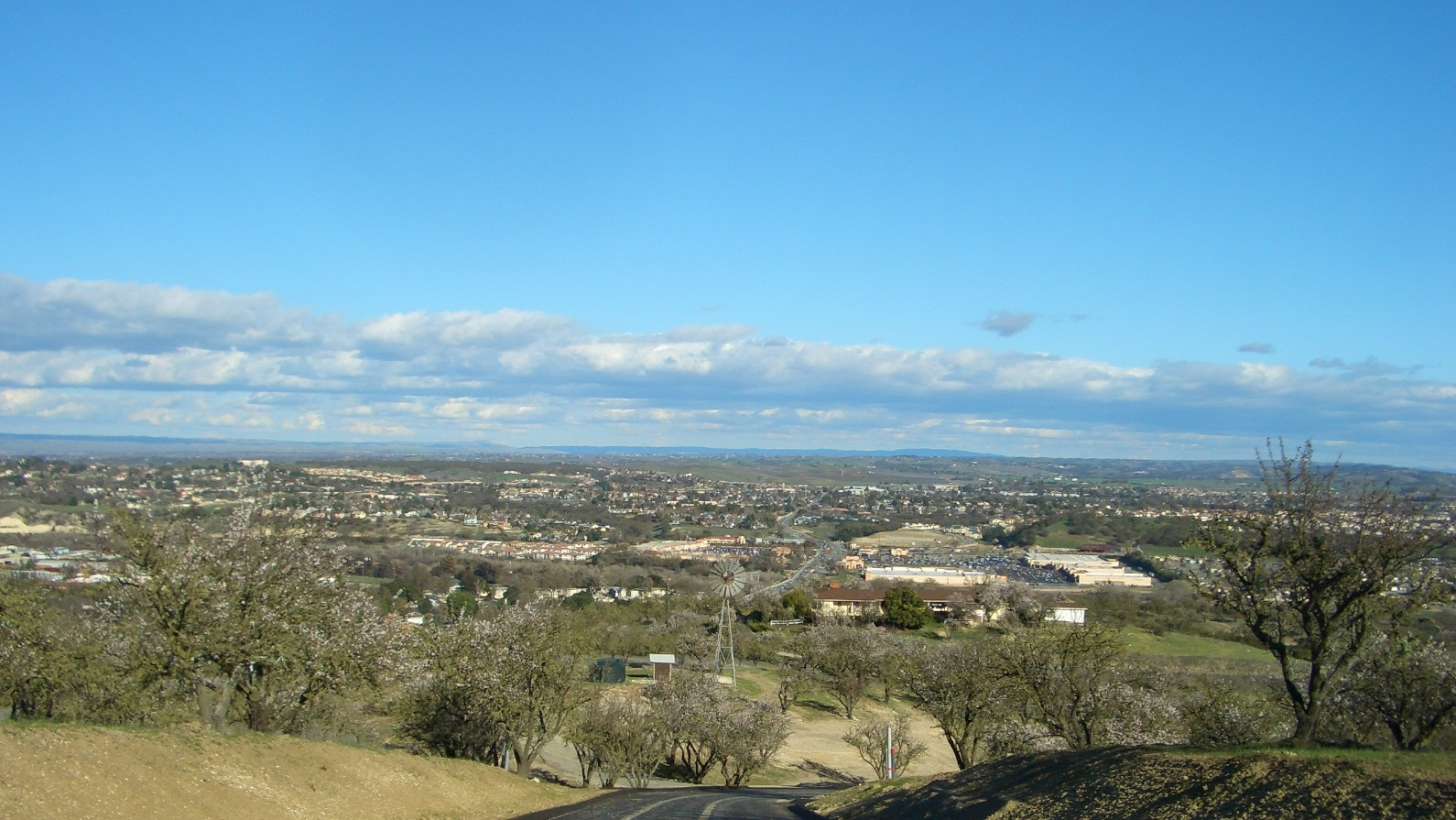 Hilltop photo of Paso Robles. By Sam Houston.